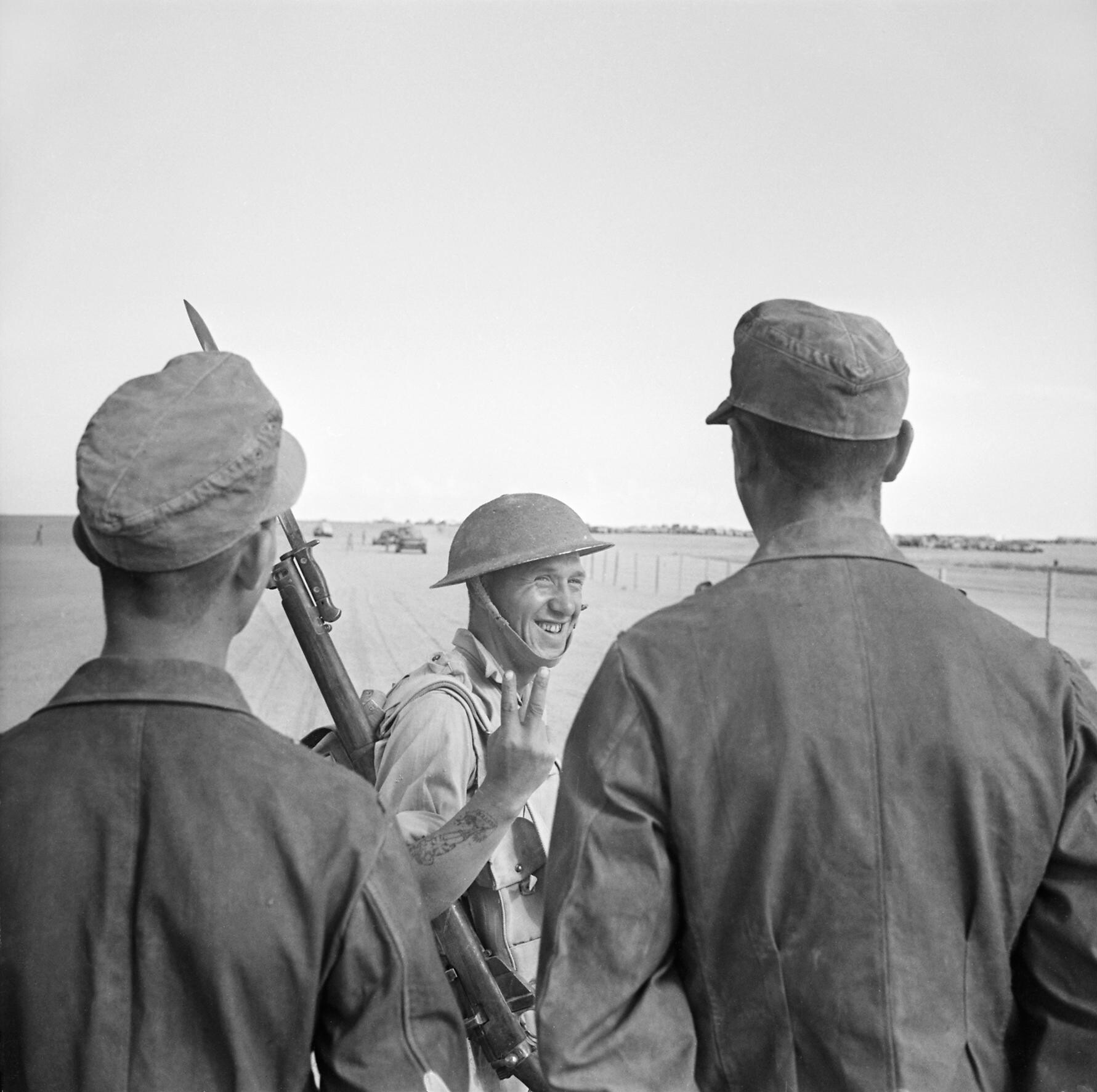 A British soldier gives the "insult" version of a V-for-Victory sign to German prisoners captured at El Alamein, 26 October 1942. A British soldier gives a V-for-Victory sign to German prisoners captured at El Alamein, 26 October 1942.